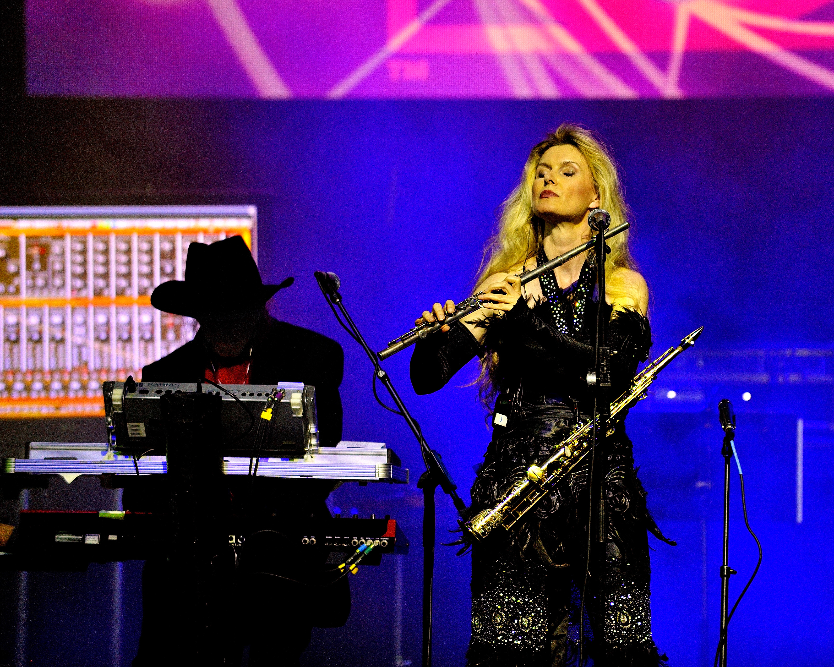 Linda Spa, w/ Tangerine Dream, performing live on the Cruise to the Edge, April 2014.